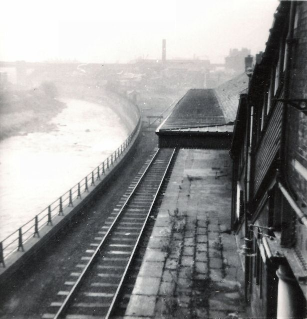 Kelvin Hall Station. Originally named Partick Central (Partick_Central_railway_station), the station was renamed Kelvin Hall in 1959. As part of the Lanarkshire and Dunbartonshire Railway, it opened in 1896. It closed to passengers in 1964 and to freight in 1978. The station was demolished in 2007. It is not be confused with the subway station of the same name, 768004.